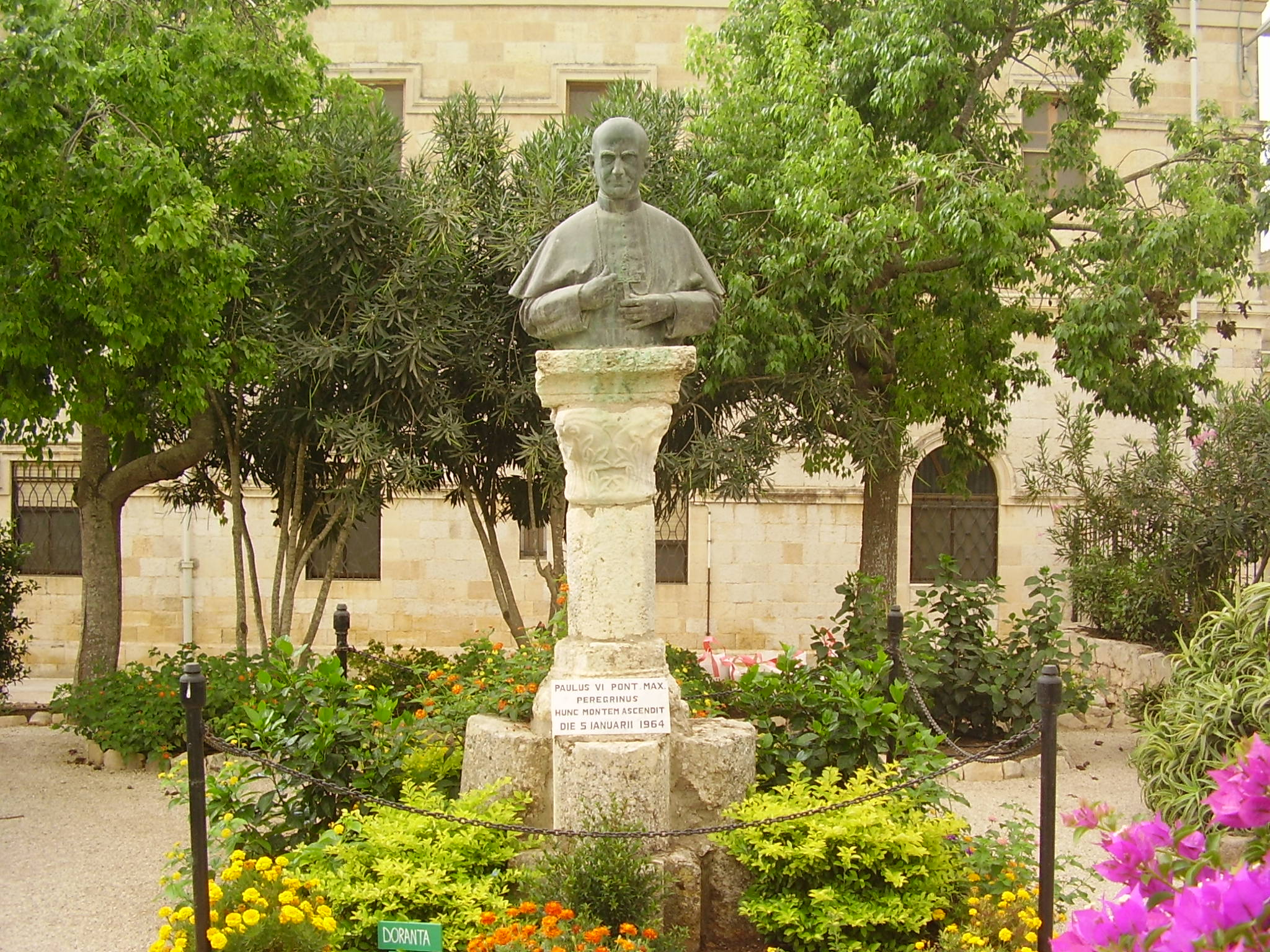 statue of paulus - 6, in mount tabor